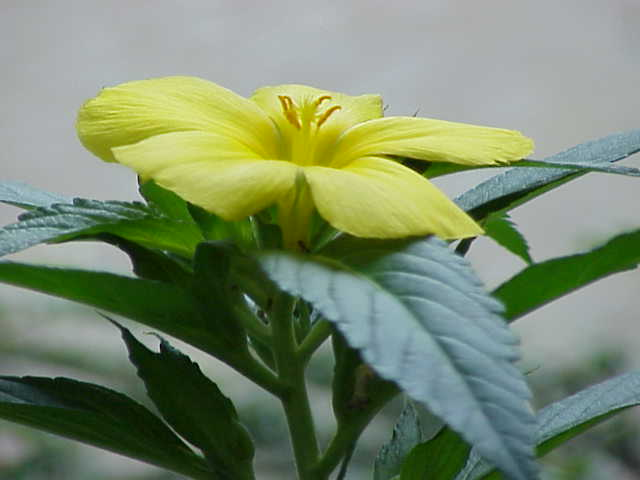 Species: Turnera ulmifolia Family: Turneraceae Image No. 1